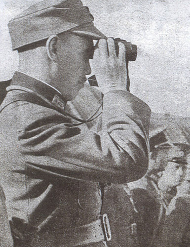 Chiang Kai-shek in the frontlines to raise the morale of his troops, in Shanghai, 1937.